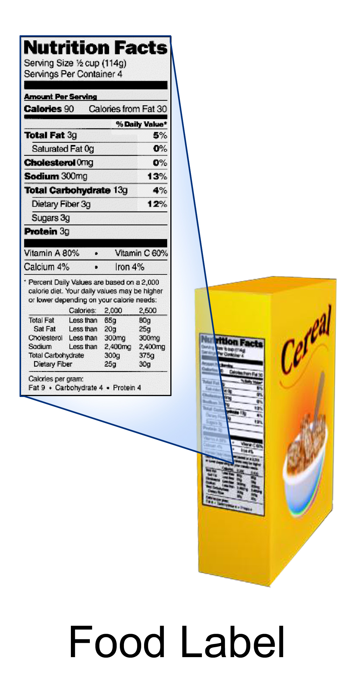 An illustration depicting a food label.